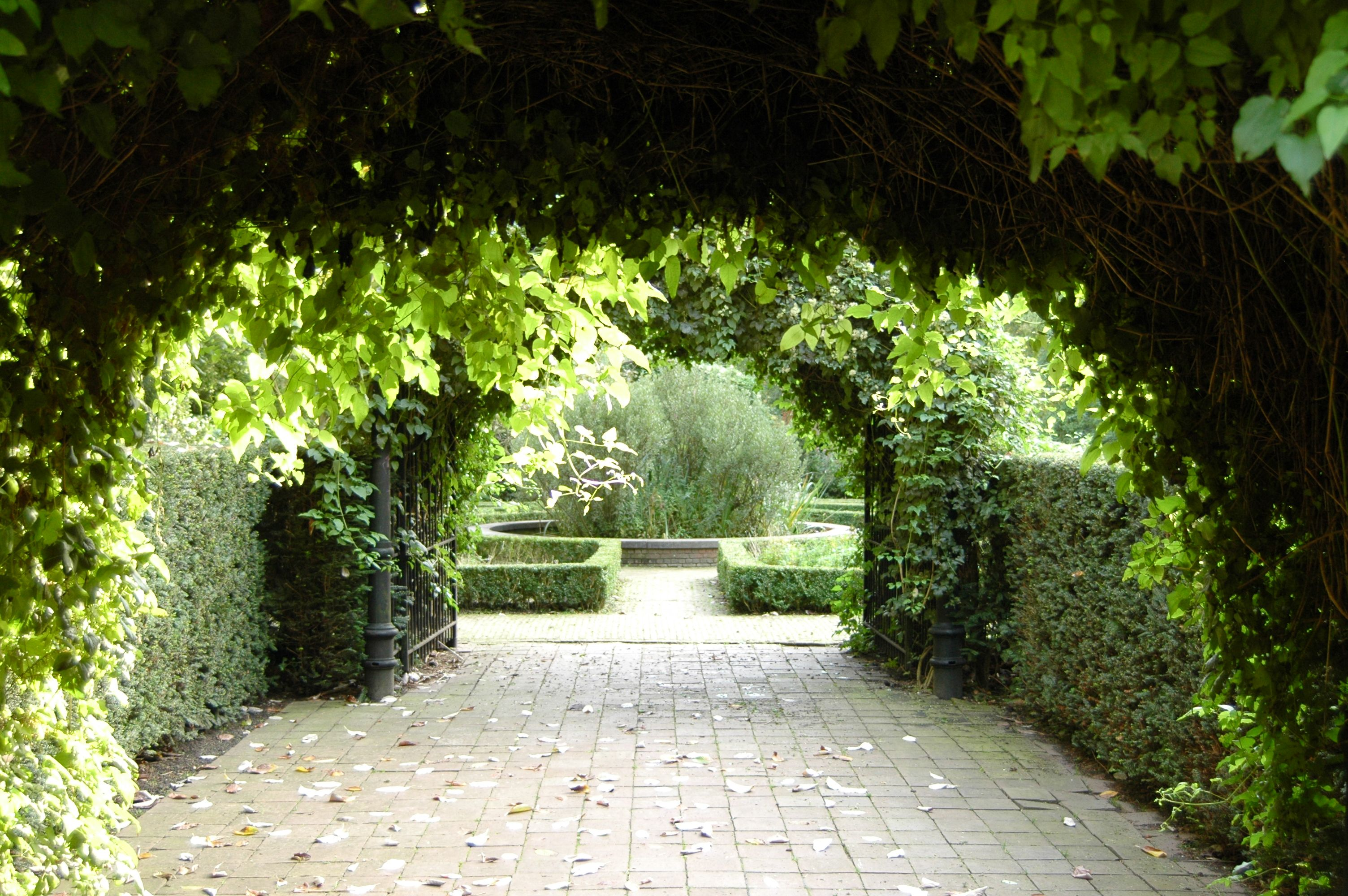 Beatrixpark